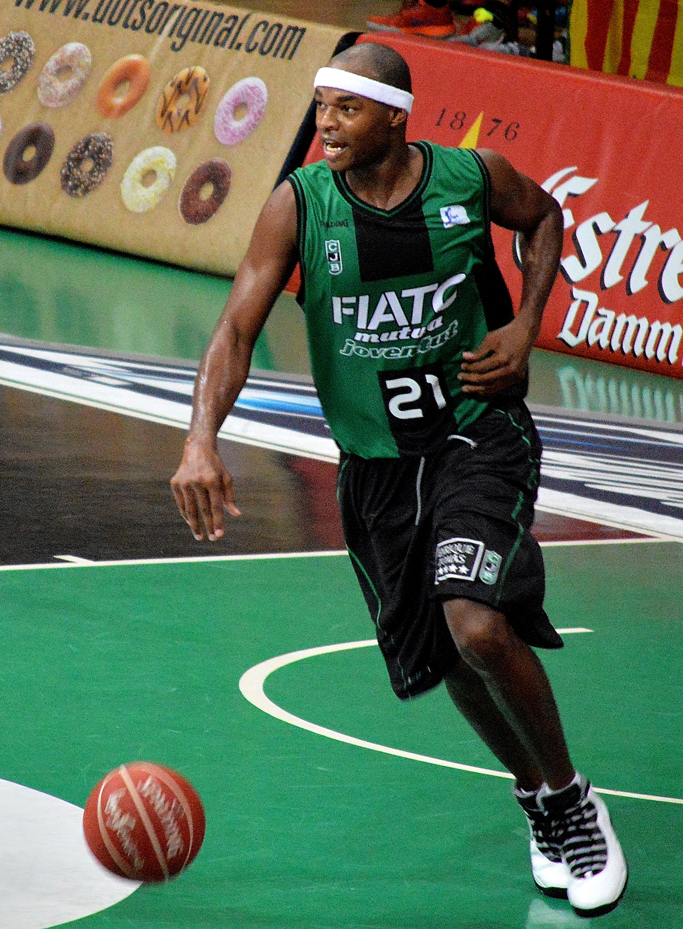 Tariq Kirksay playing for FIATC Joventut in the 2014/15 Liga ACB season.